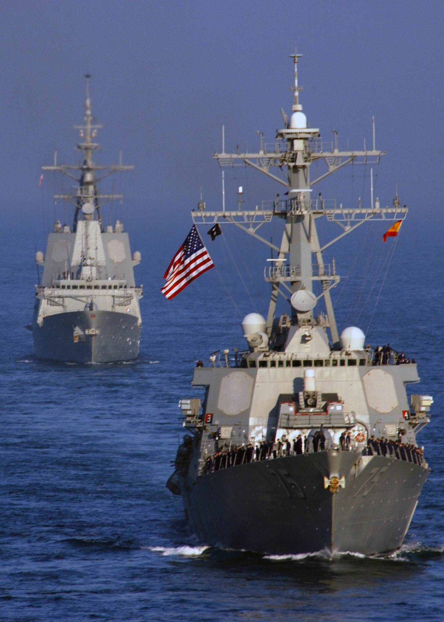 The guided-missile destroyer USS Donald Cook (DDG 75) escorts the Spanish Navy Ship Alvaro de Bazan (F101) as the Bazan concludes operations with Carrier Strike Group 2 in the Persian Gulf on Dec. 3, 2005. The Bazan was conducting maritime security operations in concert with the aircraft carrier USS Theodore Roosevelt (CVN 71) and Carrier Strike Group 2.